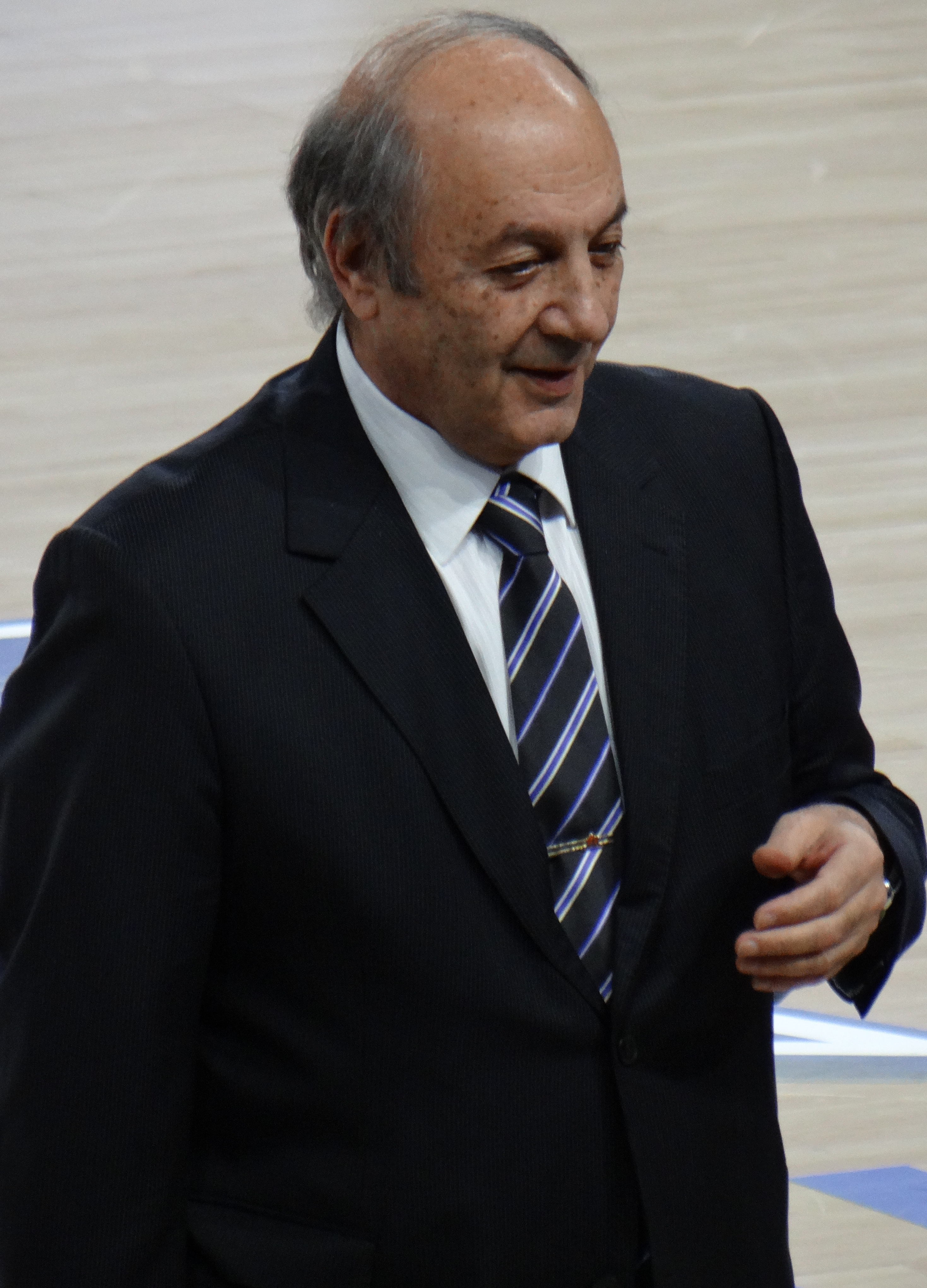 Tuncay Özilhan Anadolu Efes vs BC Žalgiris EuroLeague 20180223